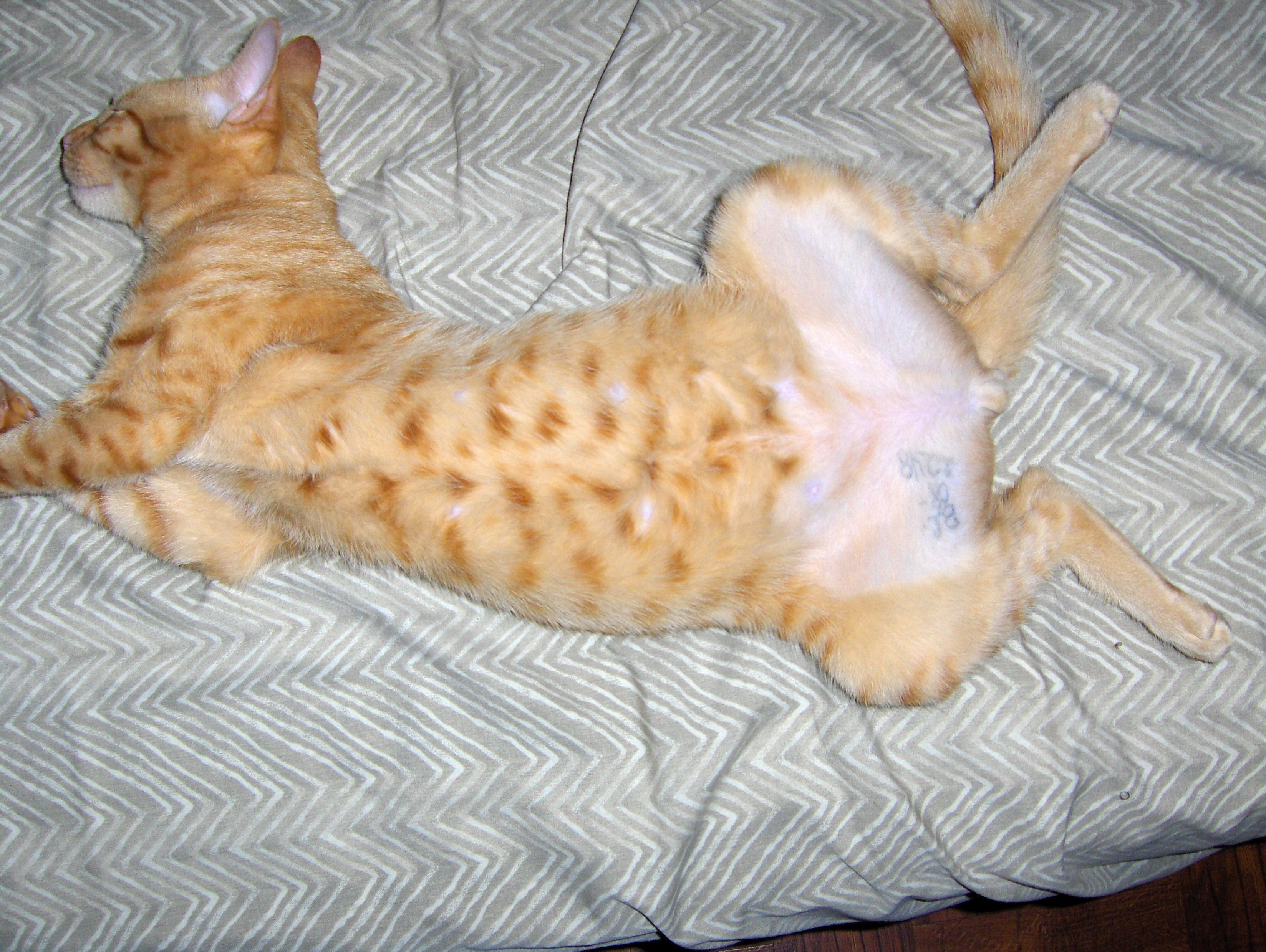 Can you believe he fell asleep like this? (In case you're wondering, that's a Broward County Animal Shelter tattoo he has.)